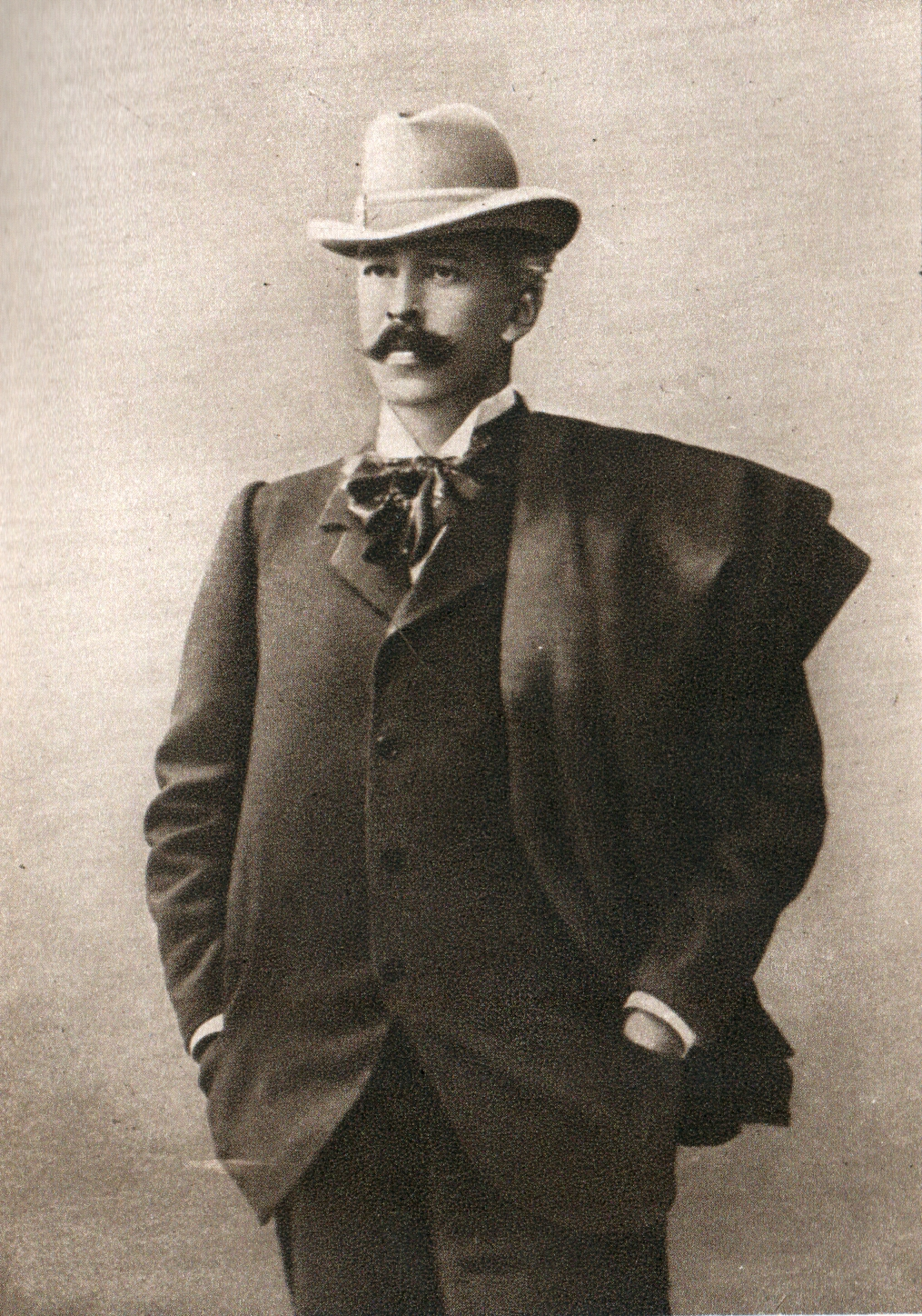 Konstantin Alexeev-Stanislavsky in 1900